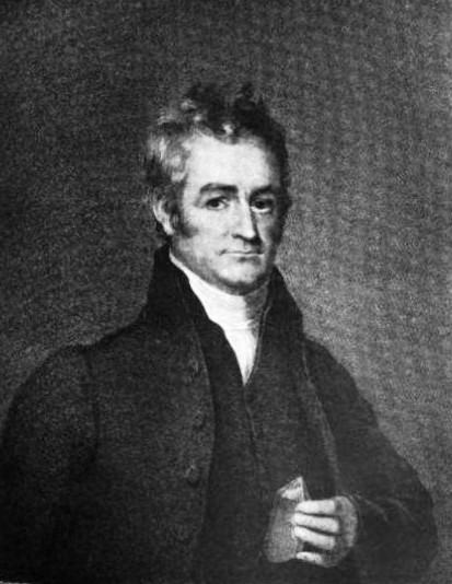 Engraving of William Phillips (1775 - 1828), the geologist